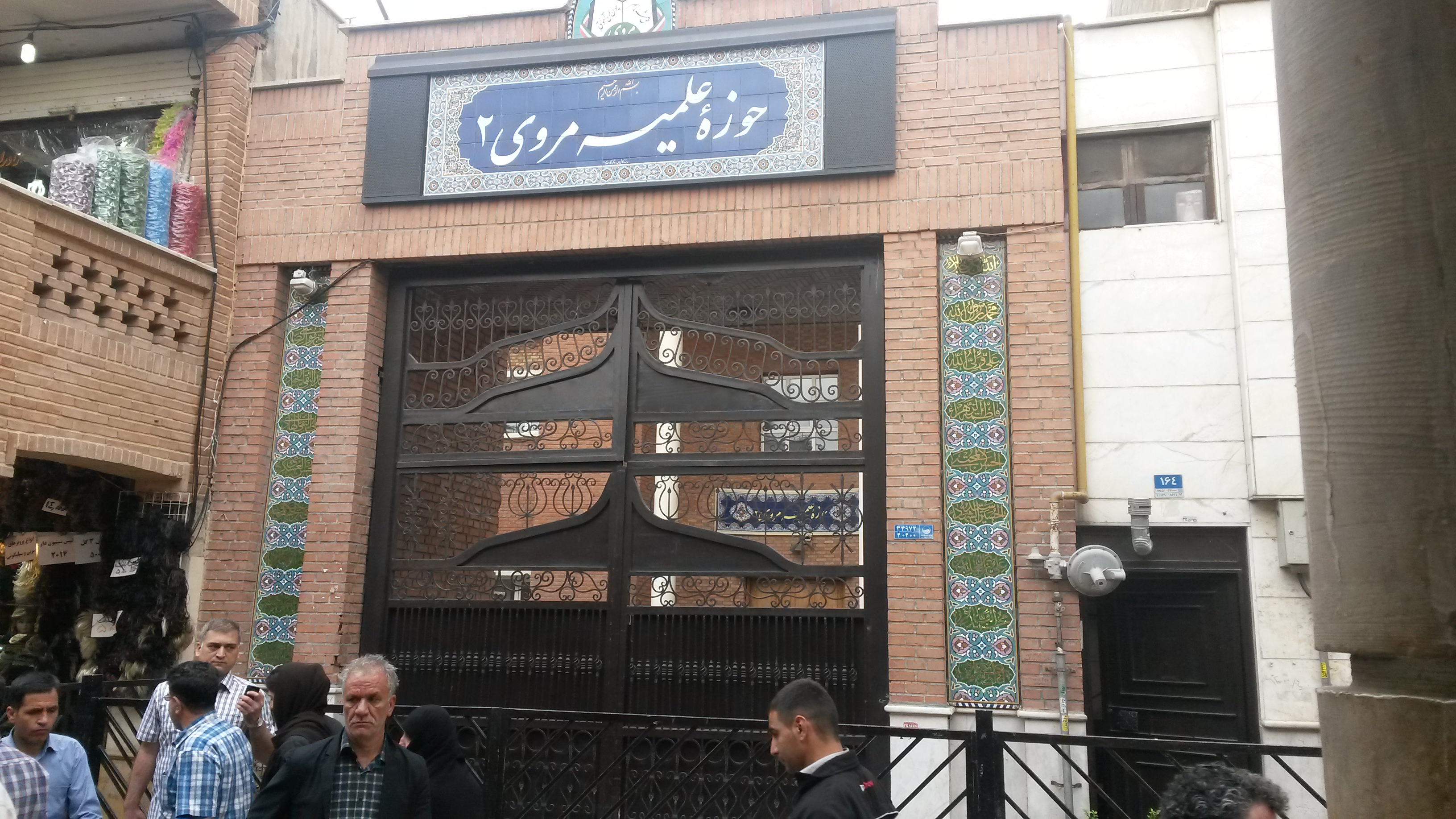 Marvi school